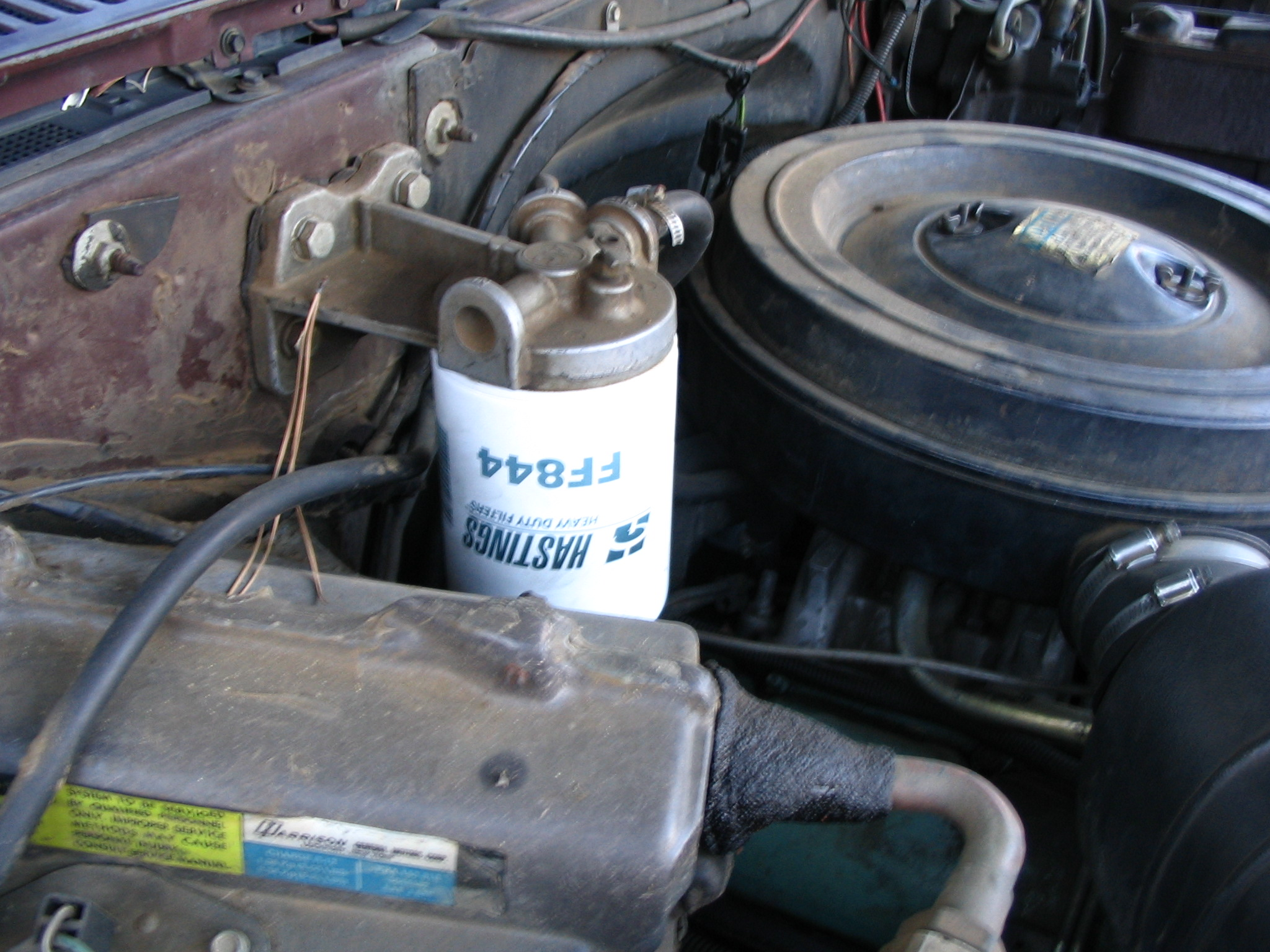 I took this image myself. It is a 1982 GMC C1500 Sierra Classic with a 6.2L diesel engine.